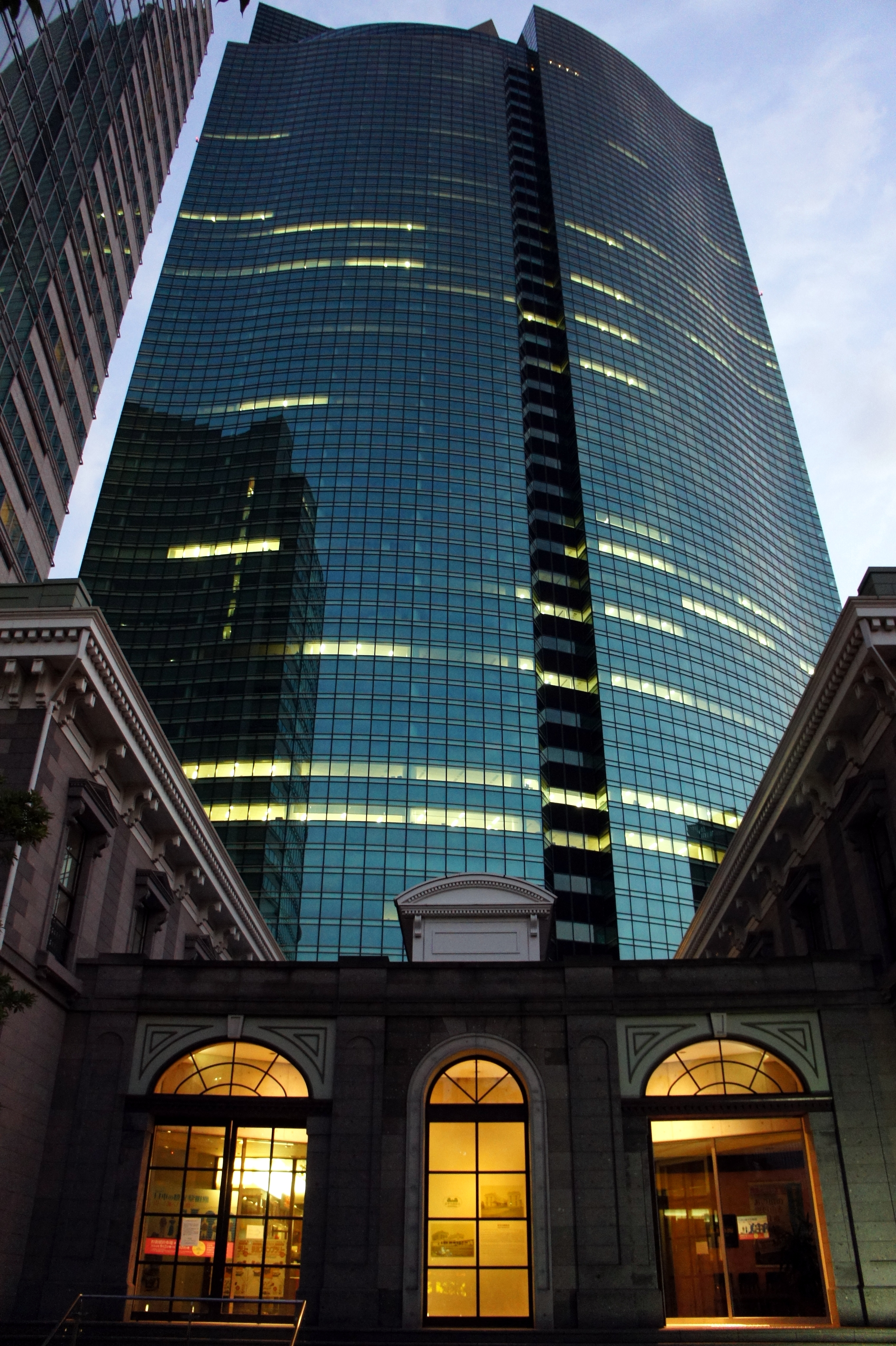 Shiodome City Center and Old Shinbashi Station (Minato, Tokyo Metropolis, Japan)